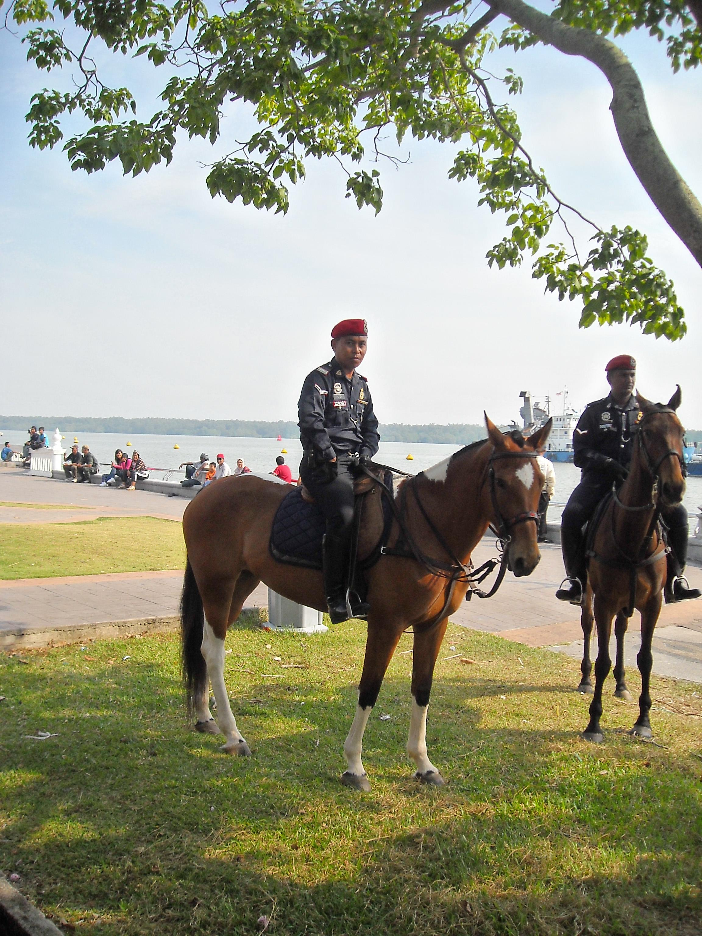 The operators of FRU Mounted Unit at Tanjung Emas, Taman Emas, Muar, Johore.